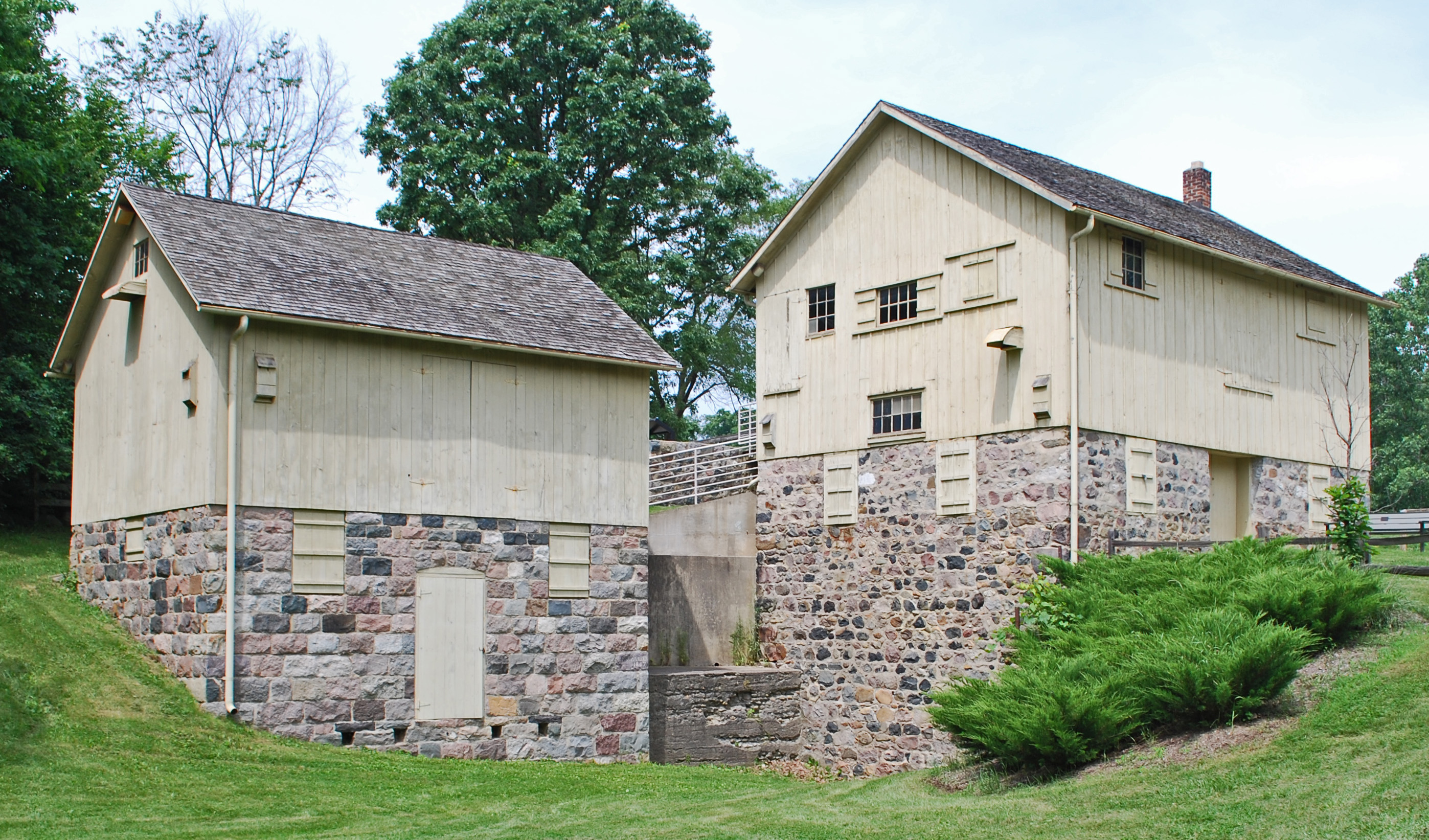 Parker Mill, east of Ann Arbor MI